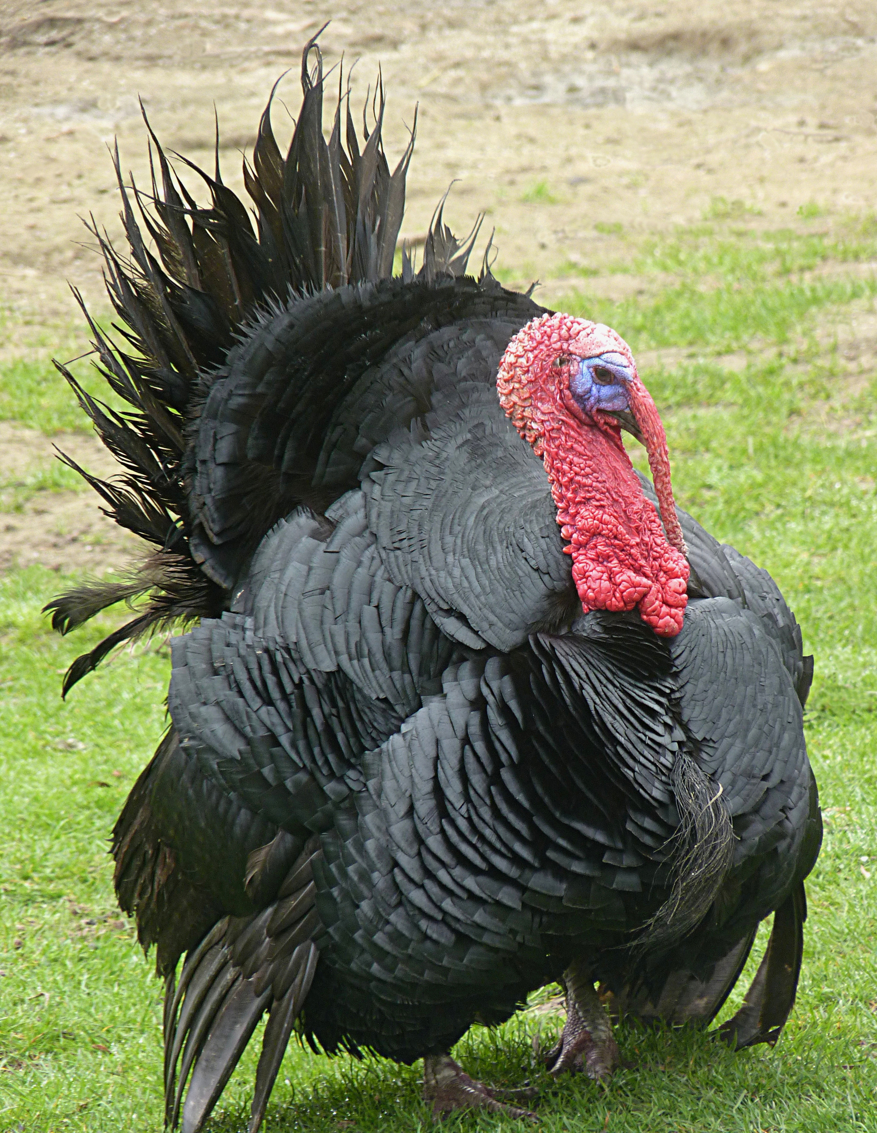 Turkey, picture taken in Belgium.